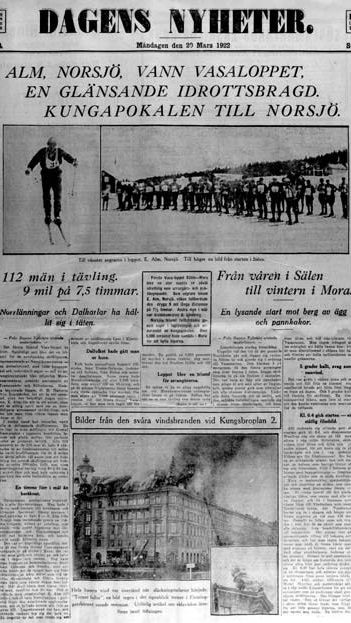 The cover of Dagens Nyheter on the 20th of March 1922.